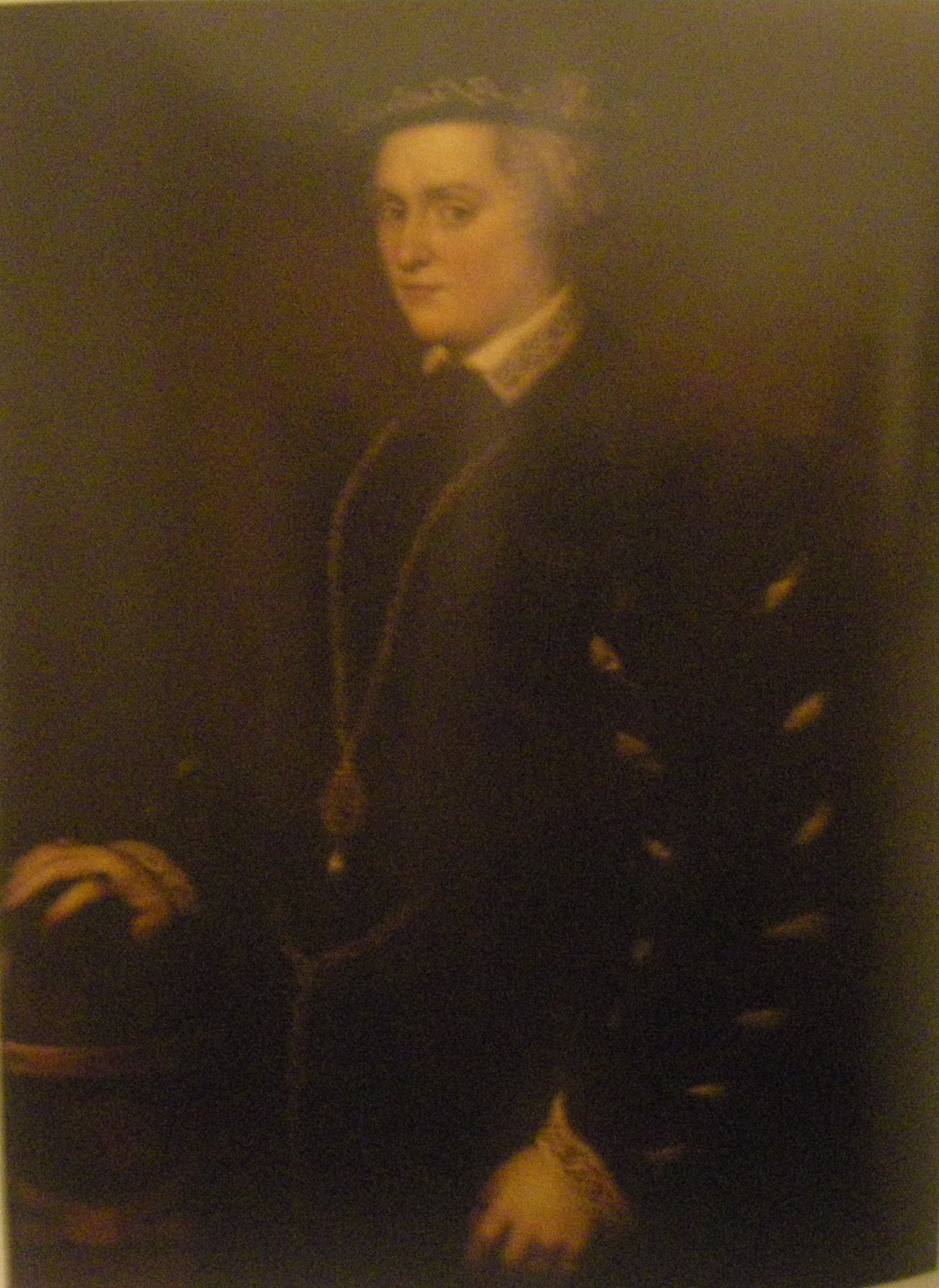 Portrait of Queen Christina of Denmark